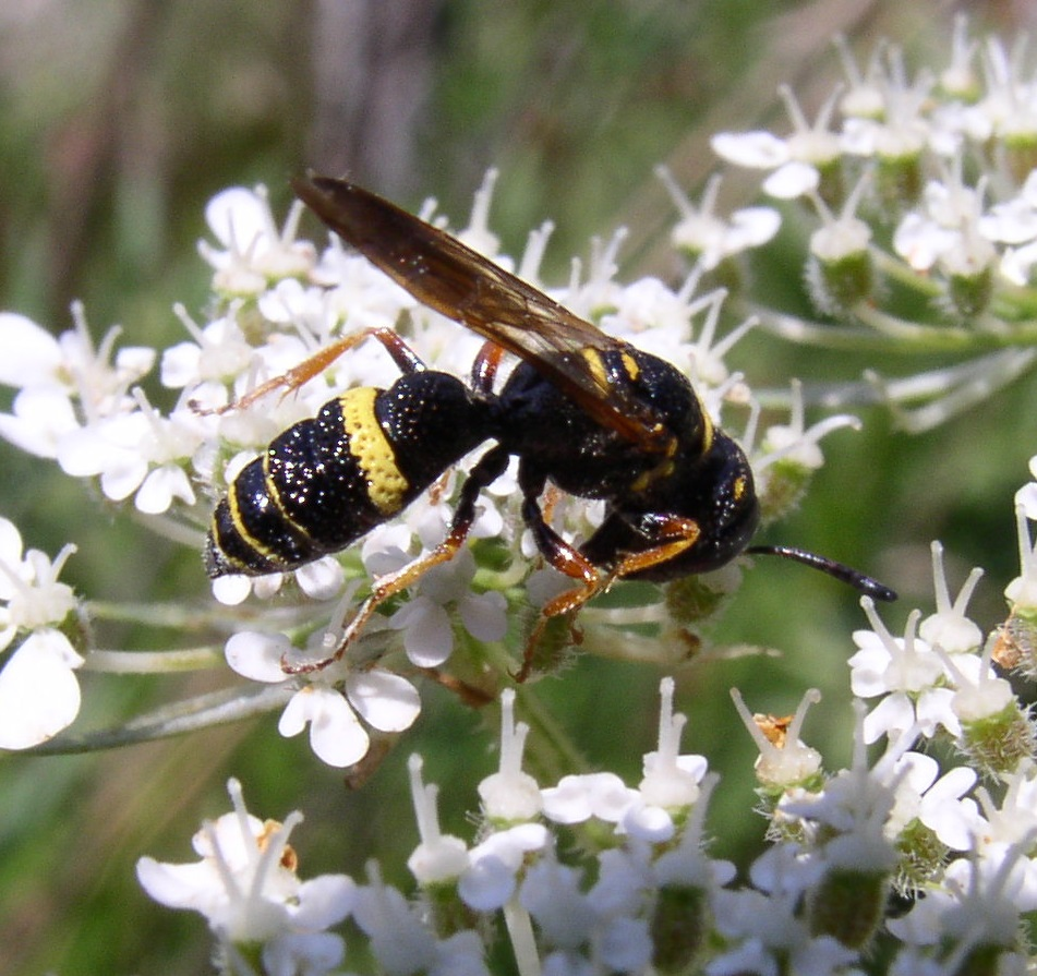 Beewolf, Philanthus gibbosus female, on queen Anne's lace. York Harbor, York County, Maine, USA.